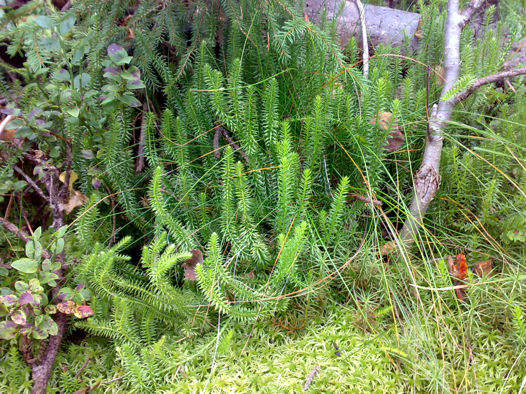 Lycopodium annotinum in a Baerum forest, Akershus, Norway